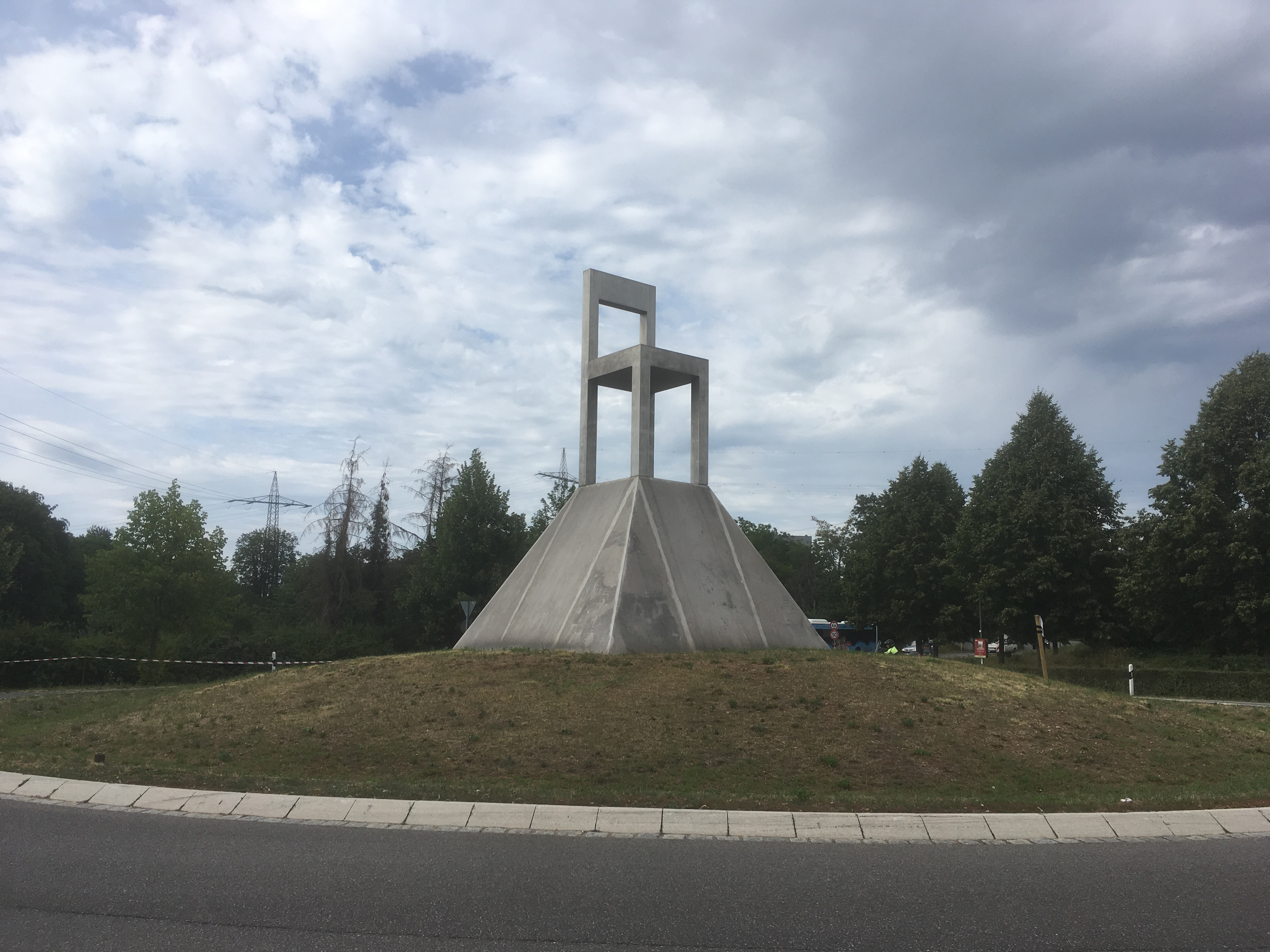 Lassù Chair by Alessandro Mendini (Monument in Weil am Rhein, Germany)